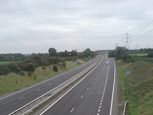 A1079 Beverley Bypass, East Riding of Yorkshire, England, looking Eastbound (towards Kingston upon Hull) (this being one of the two short dual carriageway sections). This photo has been sharpened for smaller user.